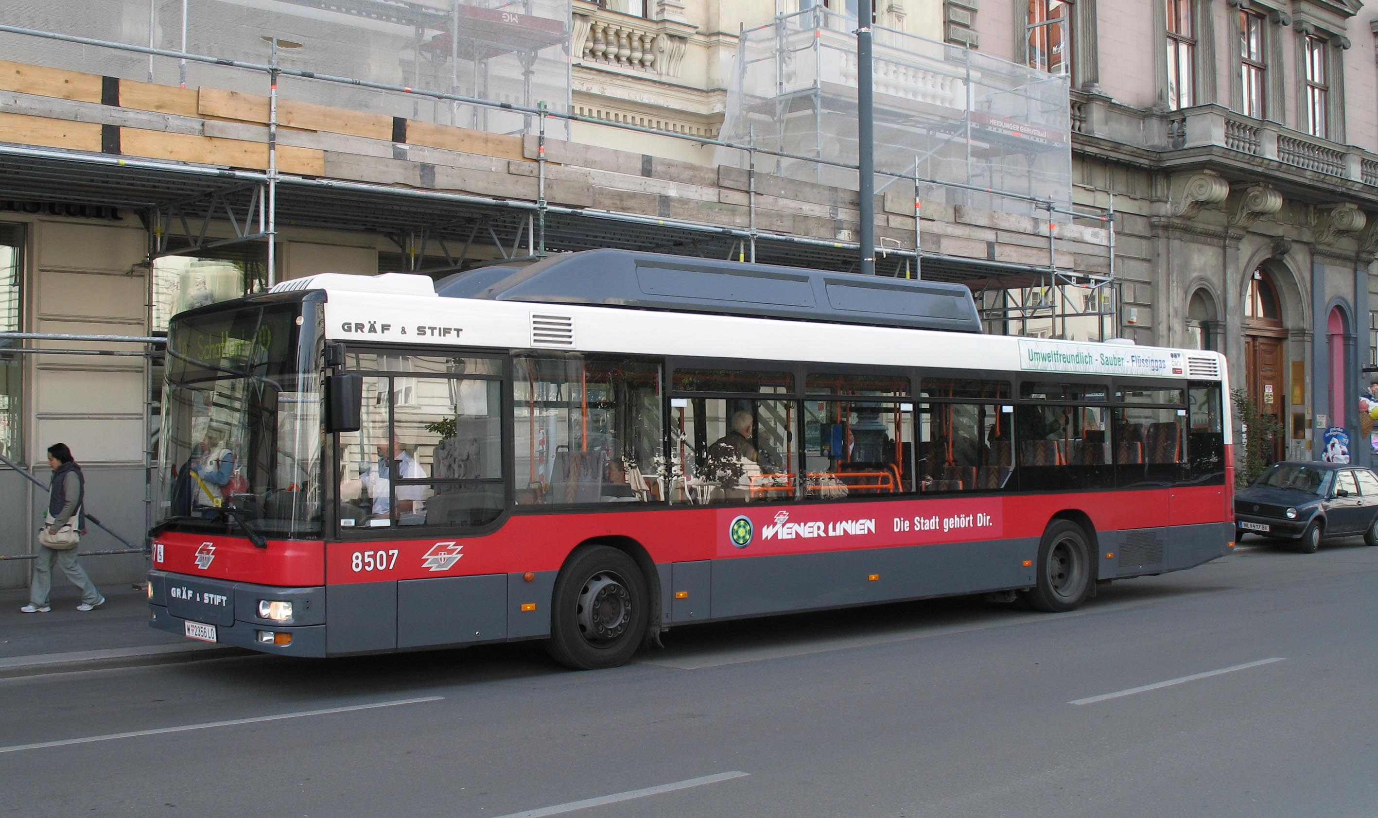 Gräf & Stift & Siemens NL 243 LPG city bus (#8507, reg. W 2356 LO) with MAN ML 243 chassis in Vienna, Austria. Built 2001, Wiener Linien GmbH & Co KG operator.